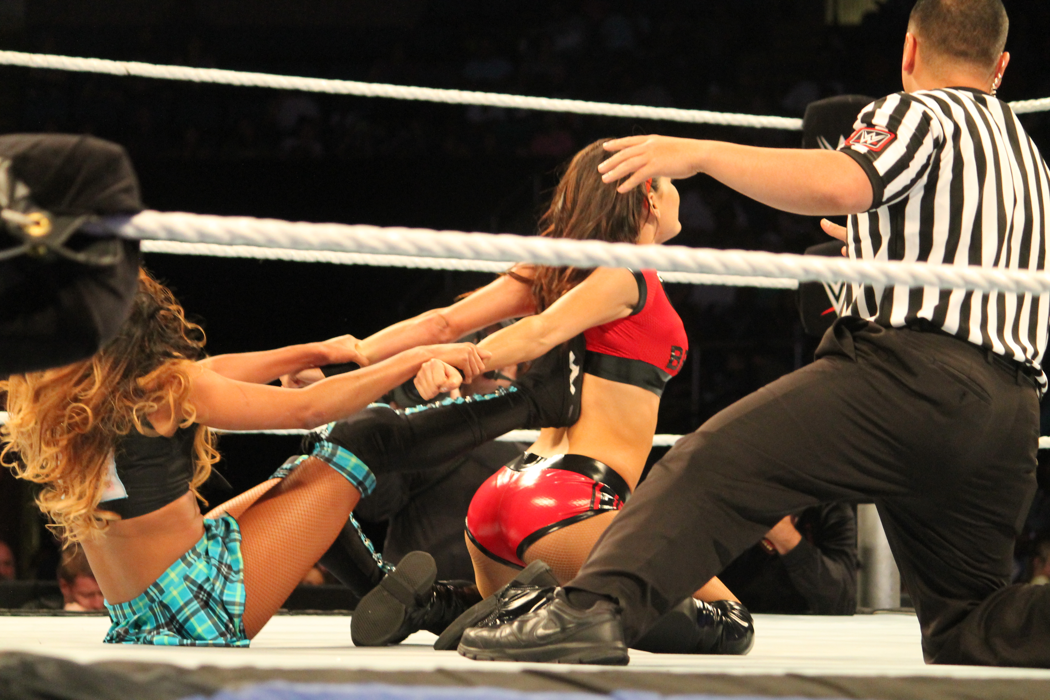 WWE Diva Cameron Applying a Modified Surfboard Stretch on Brie Bella.